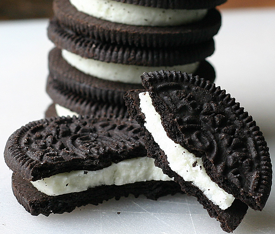 a Oreo cookie broken in half with a stack of Oreo cookies in the background.